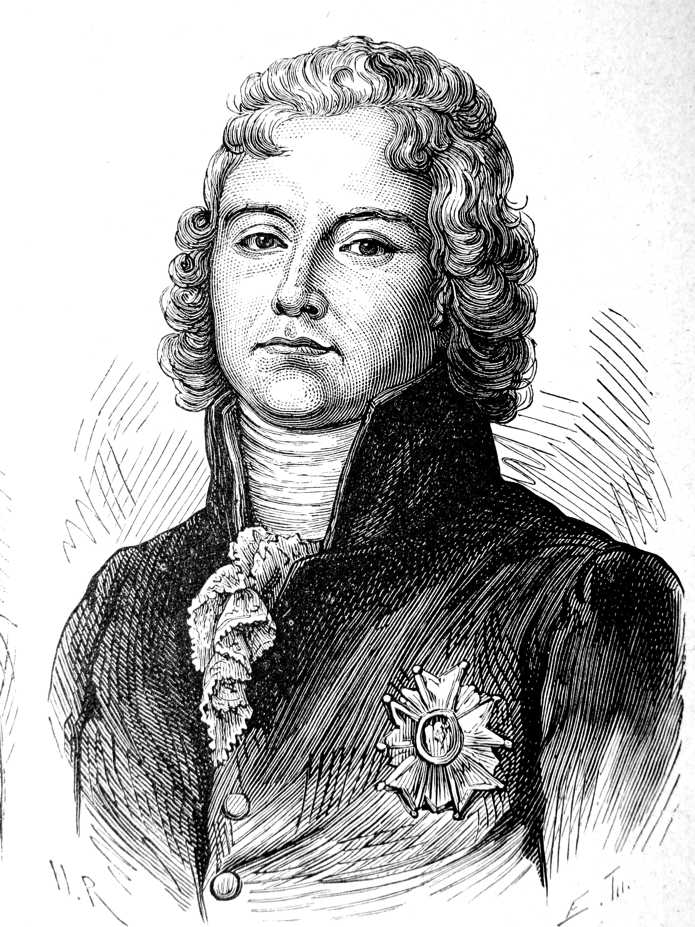 Included 436 engravings (woodcuts)